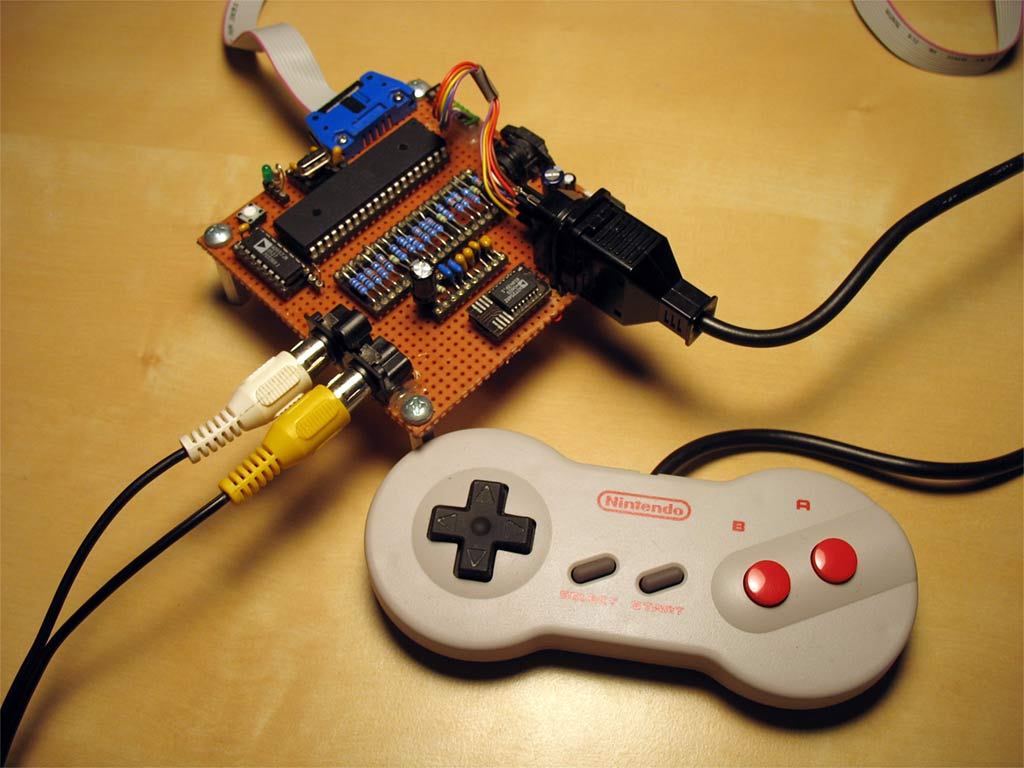 Uzebox open source hardware and software console